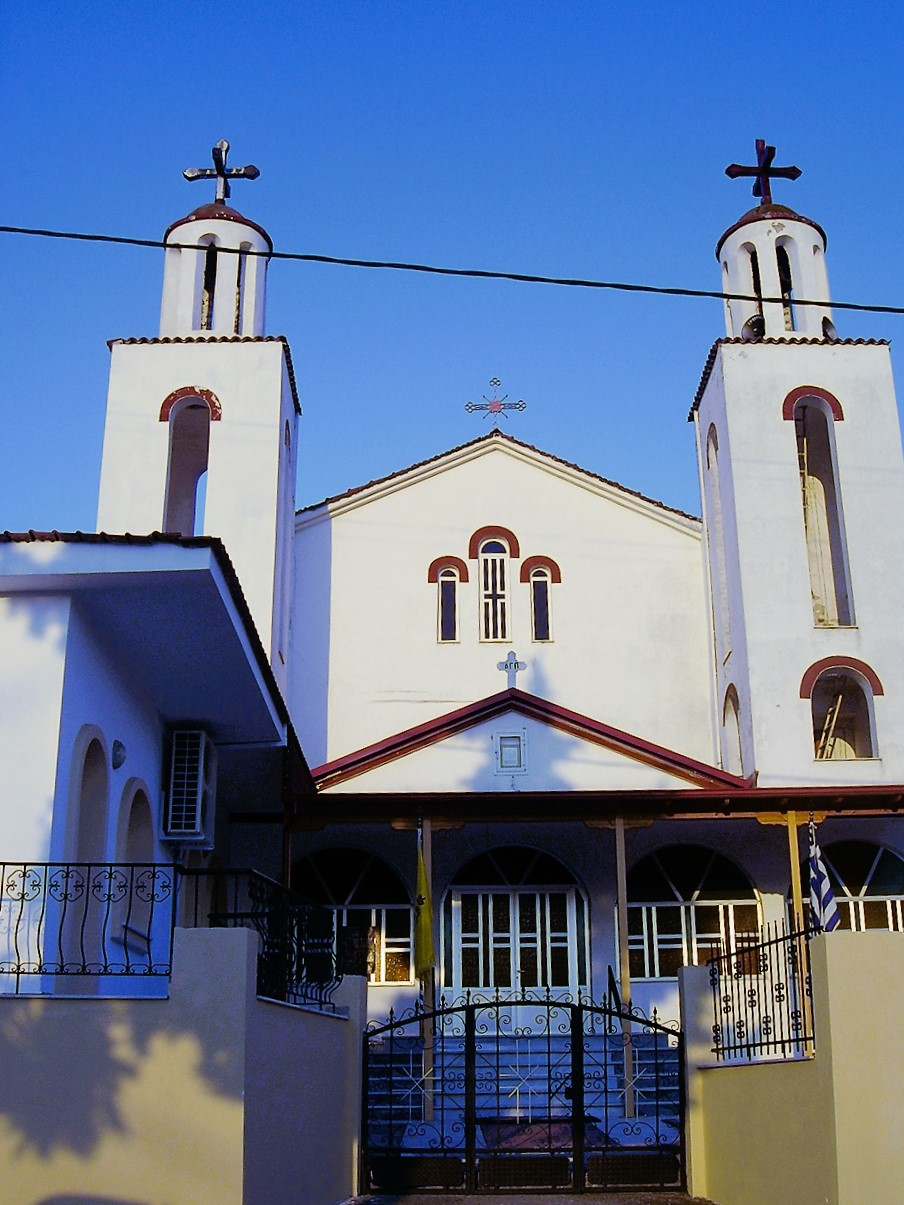 Agioi Pantes Church at Exohi, Pieria.